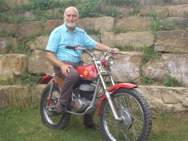 Pere Pi on a Montesa 250 Trial from 1968 (2011)